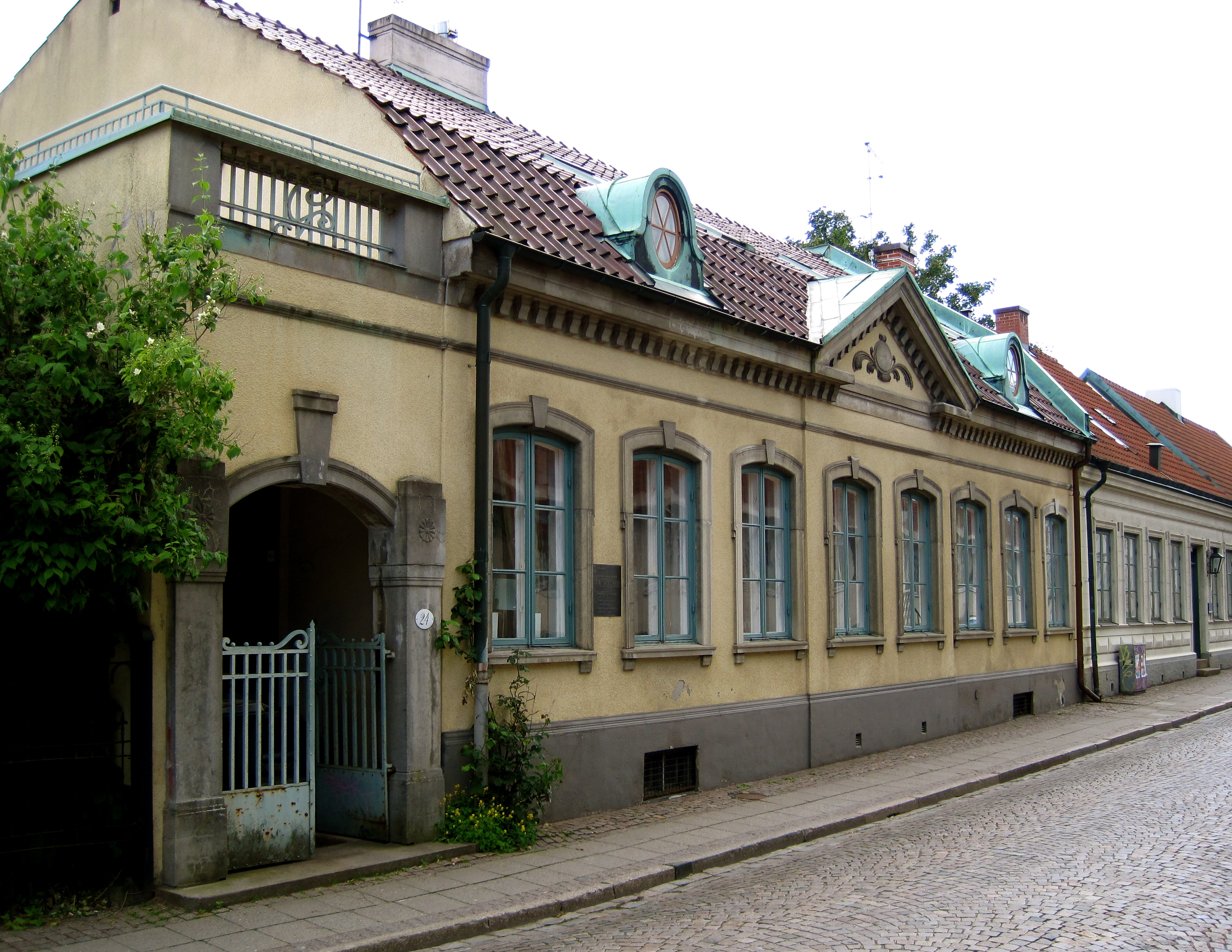 The childhood home of Swedish writer and humorist Axel Wallengren (1865-1896) at Tomegapsgatan 24 in Lund, Sweden.